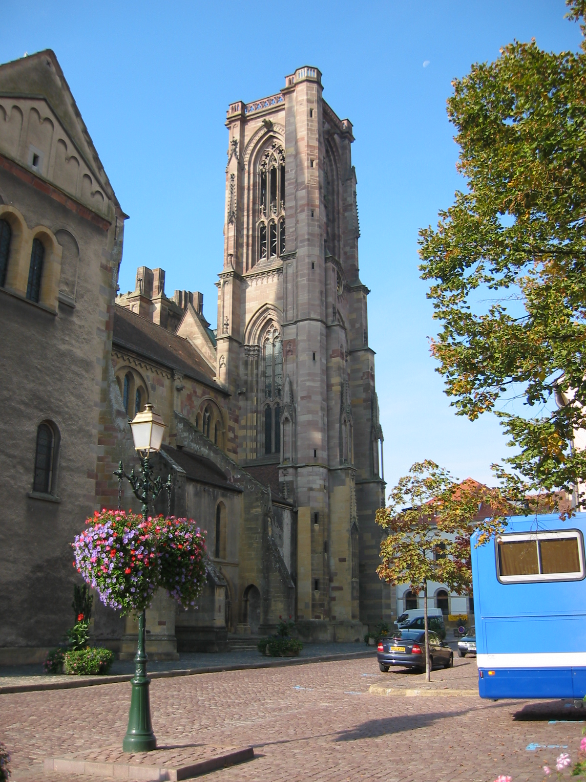 Notre Dame de l'Assomption in Rouffach - Alsace